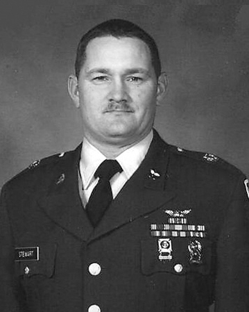 Sergeant Patrick Stewart, a United States Army soldier killed in Afghanistan in 2005.